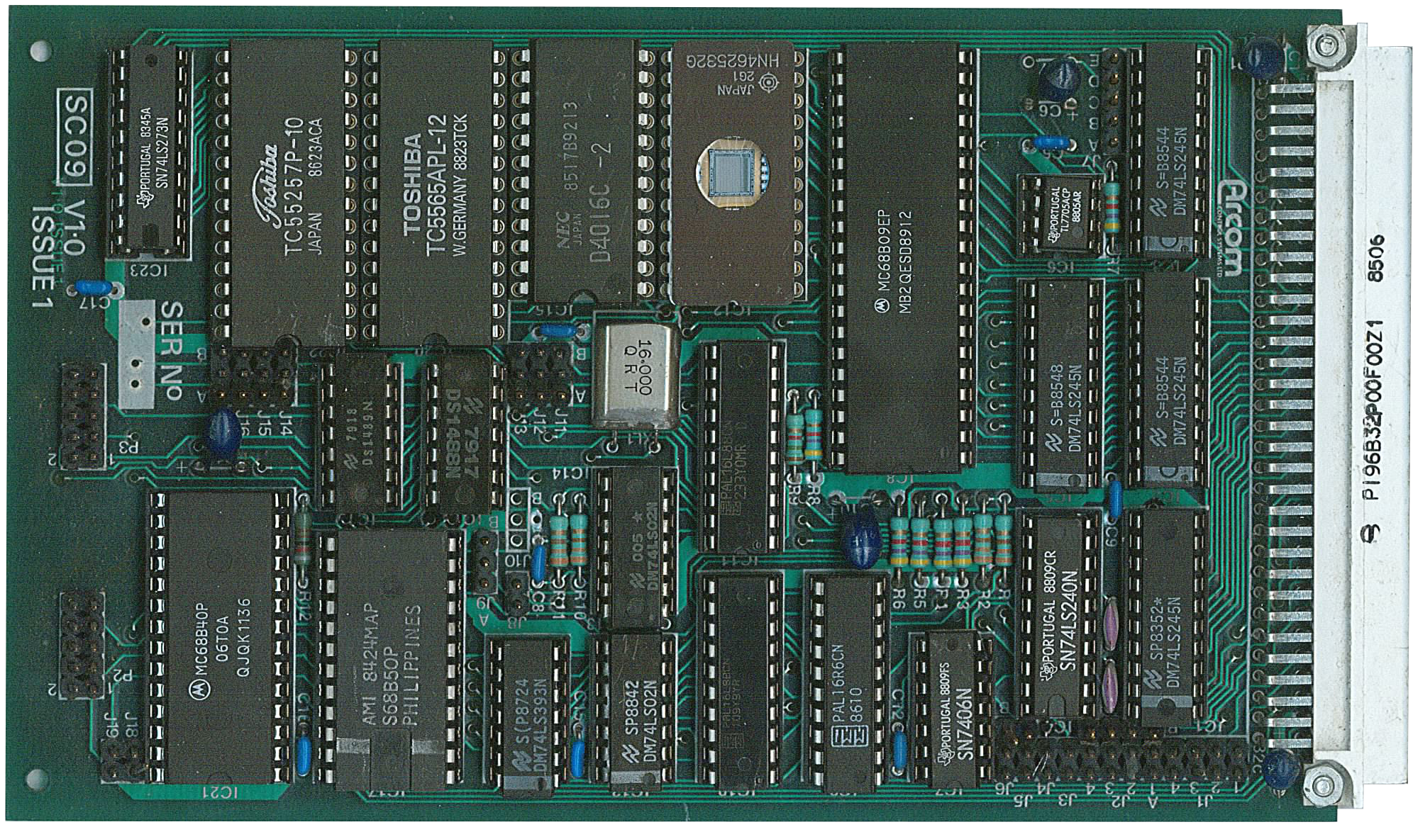 STEbus 68B09E on 100x160mm Eurocard, capable of running OS/9. Designed by Arcom Control Systems in 1985.